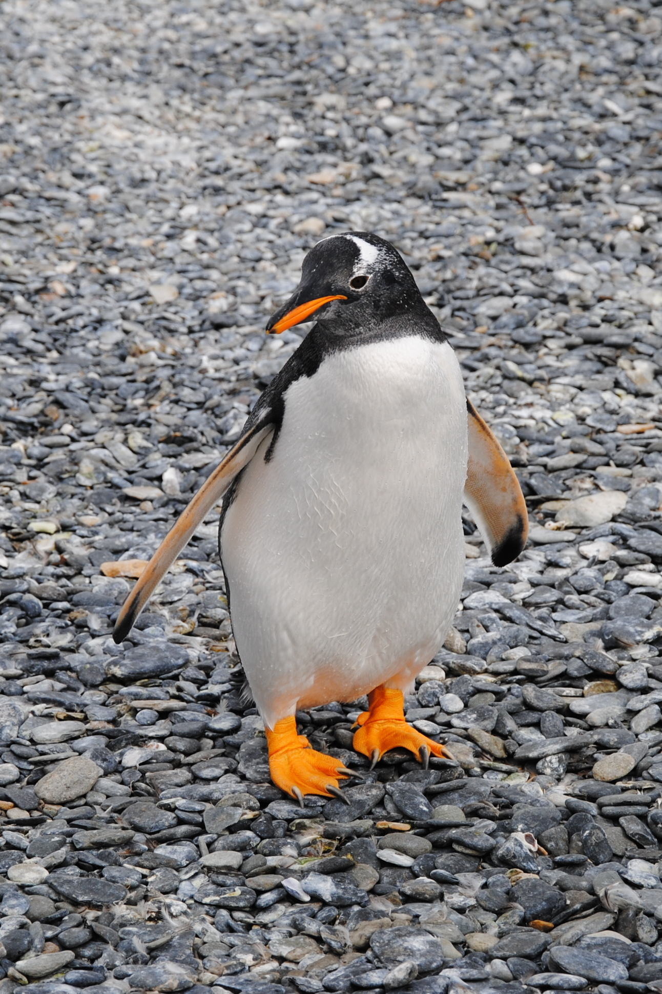 Pygoscelis Papua in Isla Martillo, Ushuaia, Tierra del Fuego.